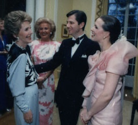 Nancy Reagan visits with Gregory J. Newell and spouse Candilyn Newell at the Ambassadors' residence, Villa Åkerlund, in Stockholm in 1987